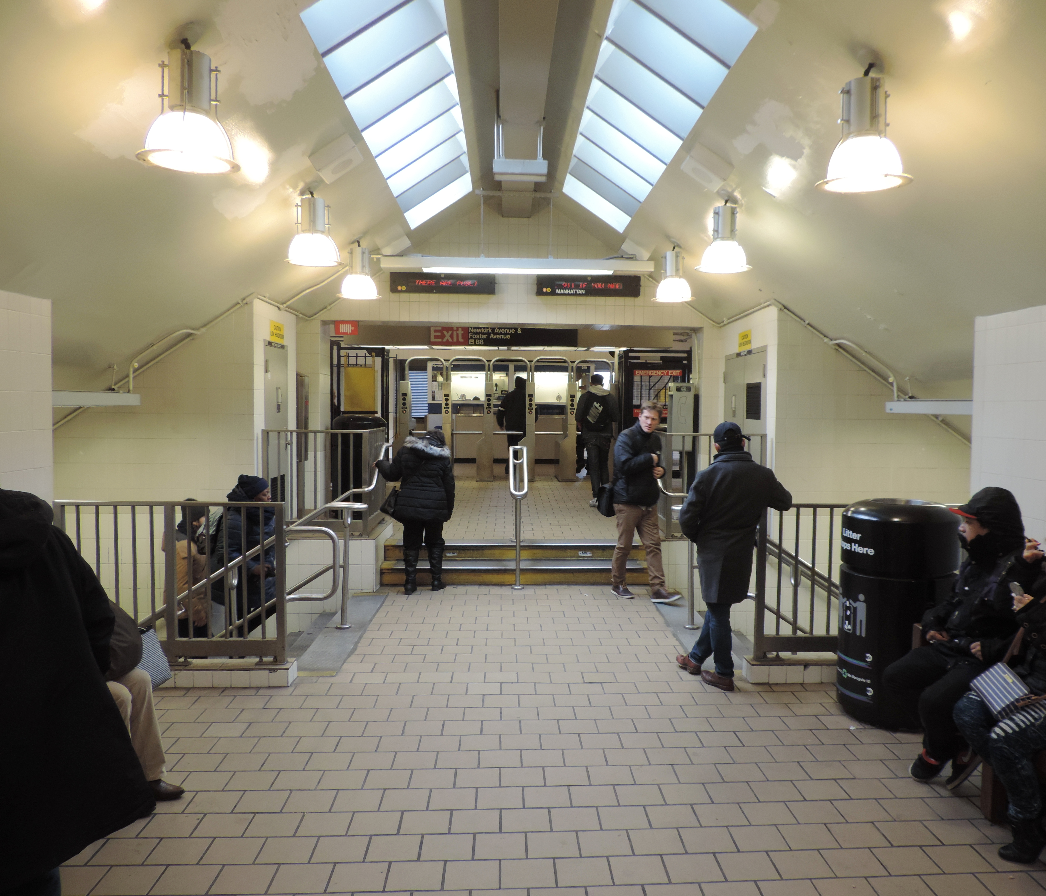 Looking north in waiting room at turnstiles